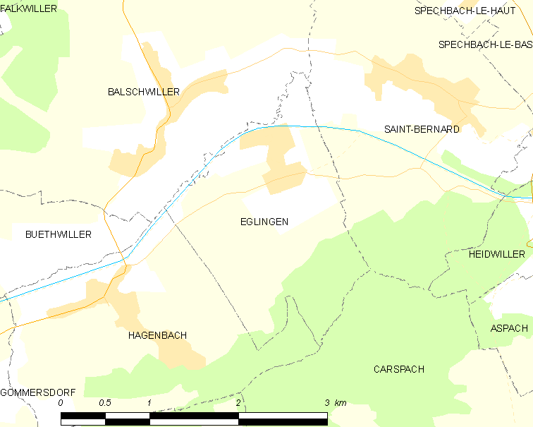 Map of French municipality